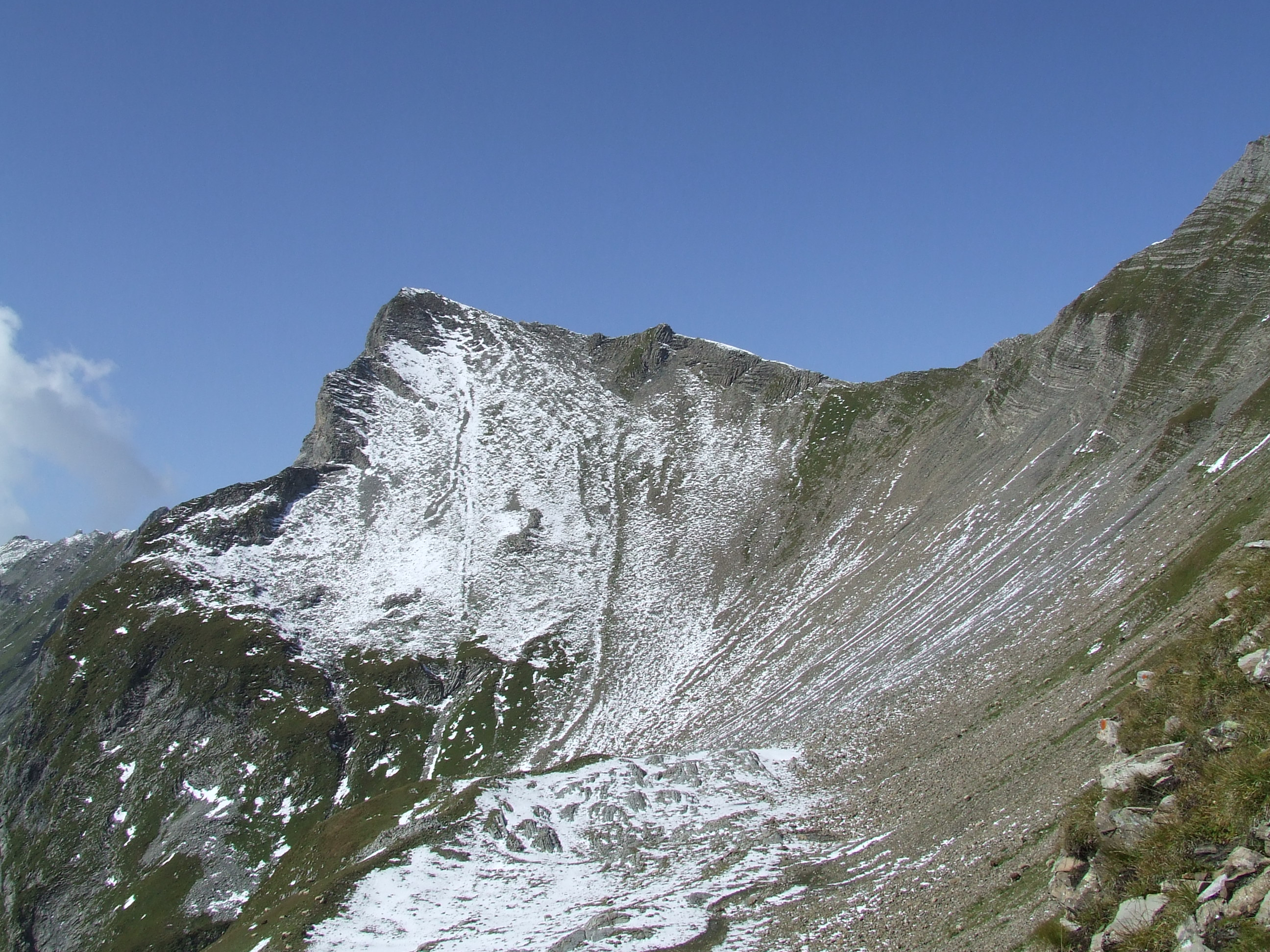 The Vorder Grauspitz from the east (Swiss) side. Schafalpli is the area to the bottom of the image. The Hinter Grauspitz is to the right.